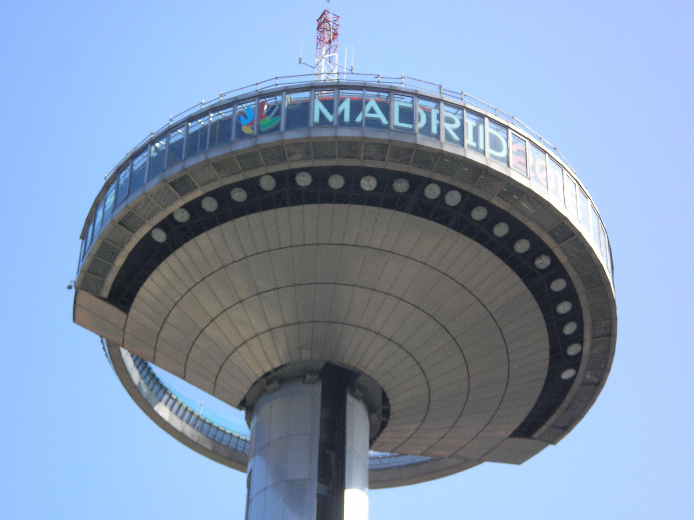 Moncloa "Lighthouse" with supporting slogan for Madrid's bid for 2016 Olympics.